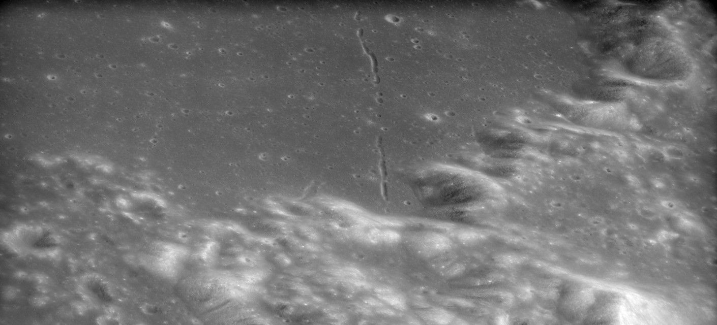 Oblique view of southern Le Monnier crater, on the moon, taken by Apollo 17 panoramic camera. The landing site of the Lunokhod 2 rover is left of center.